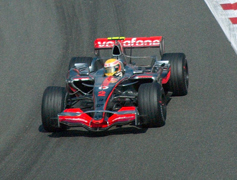 Lewis Hamilton driving for McLaren at the 2007 Belgian Grand Prix.